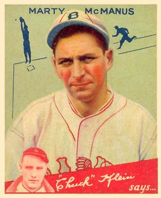 1934 Goudey baseball card of Marty McManus of the Boston Braves #80. PD-not-renewed.